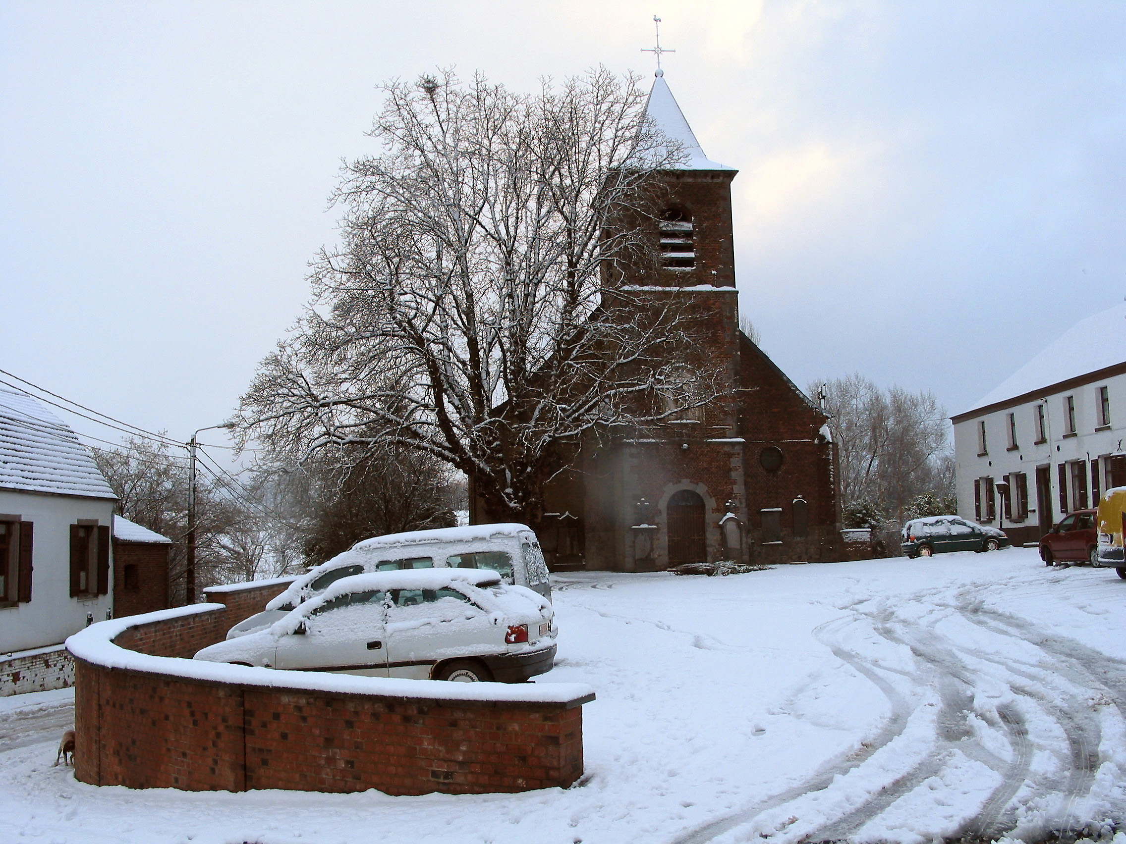 Gottignies (Belgium), the neighbourhood of the St. Léger church.